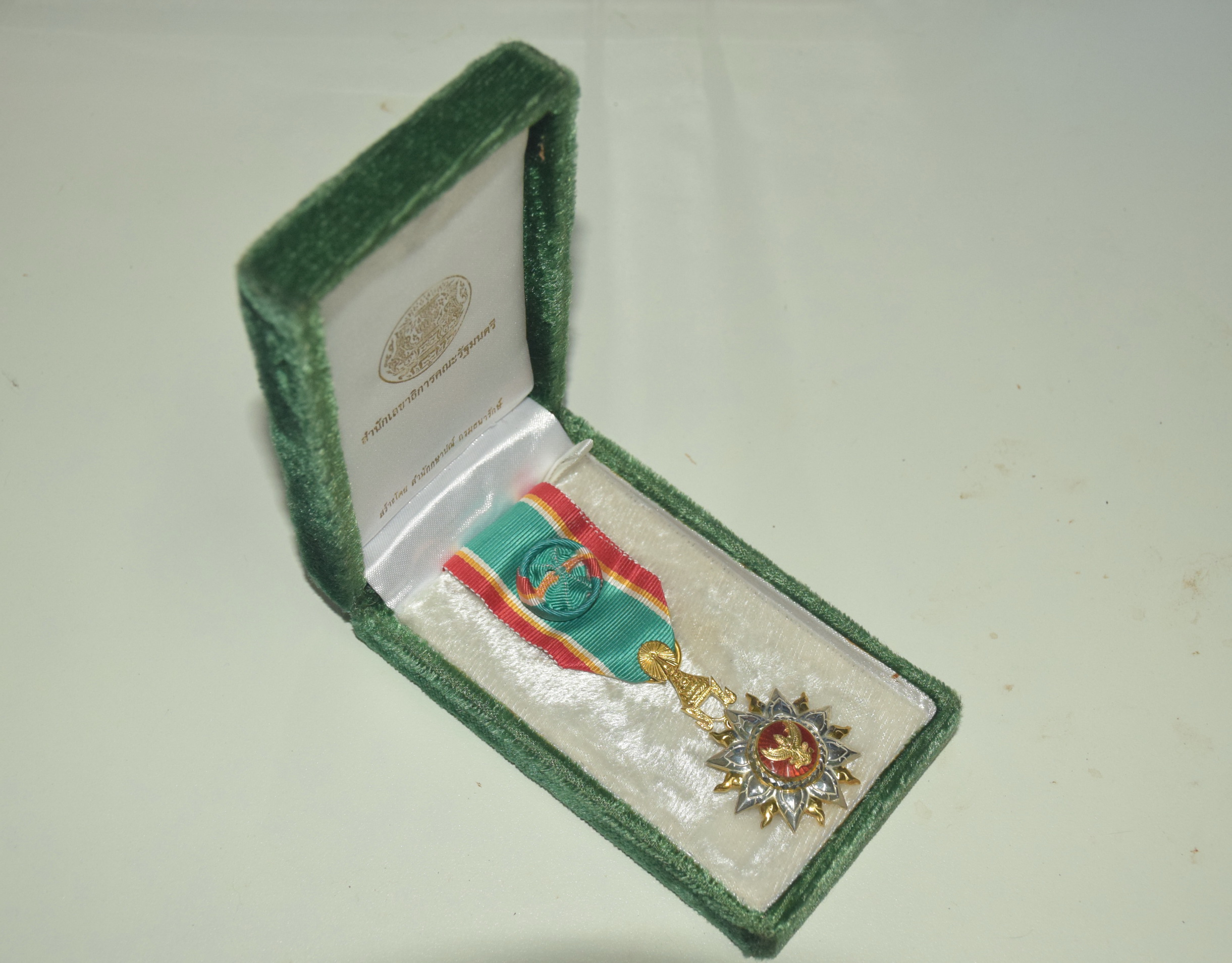 Chatuttha Direkkhunaphon Order of the Direkgunabhorn of Thailand in Wat Kungtapao Local Museum. at Wat Khung Taphao, Ban Khung Taphao, Khung Taphao subdistrict, Mueang Uttaradit, Uttaradit Province, Thailand.)